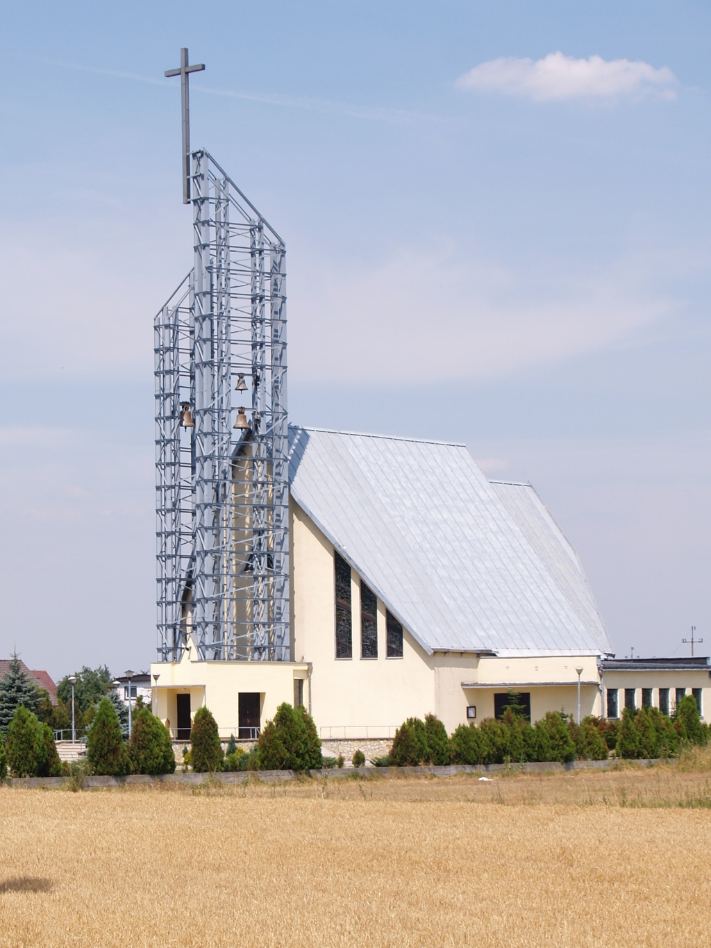 Saint Florian church in Żywocice